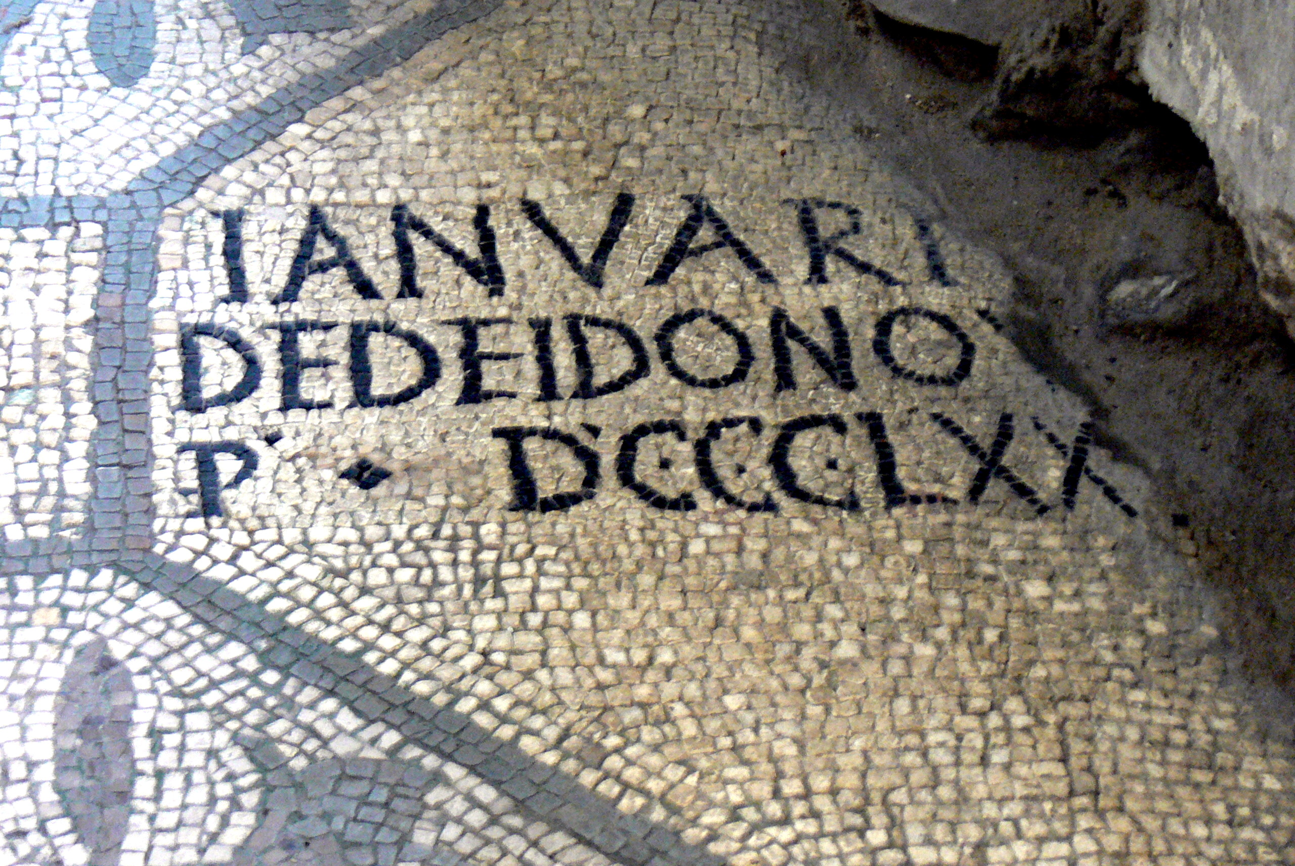 Patriarch's basilica, Aquileia. Excavations: Mosaic ( 4th century ) with Latin inscription: IANUARIU[S] DE DEI DONO V[OVIT] P[EDES] * DCCCLXX (Januarius paid for 870 square feet of mosaic as a votive offering )